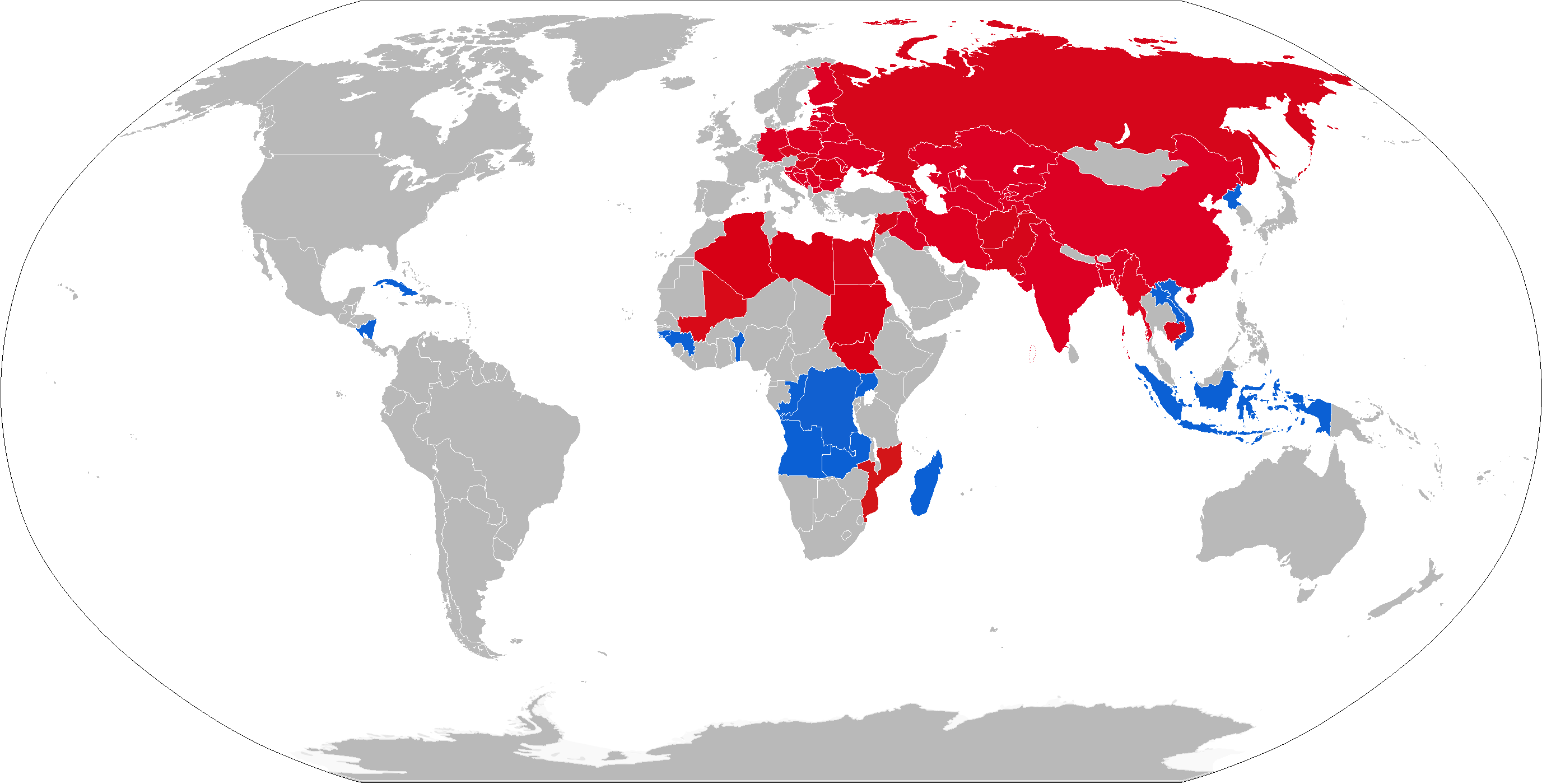 Map of PT-76 operators in blue with former operators in red